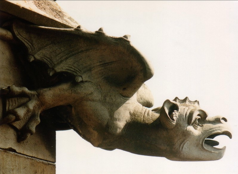 Dragon on the way up the stairs of the Ulmer Münster, Ulm, Germany.